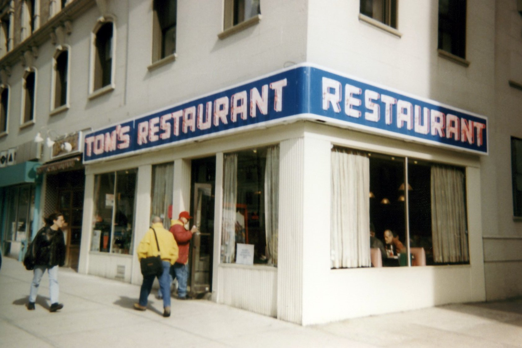 Tom's Restaurant, a primary location for the American sitcom Seinfeld.